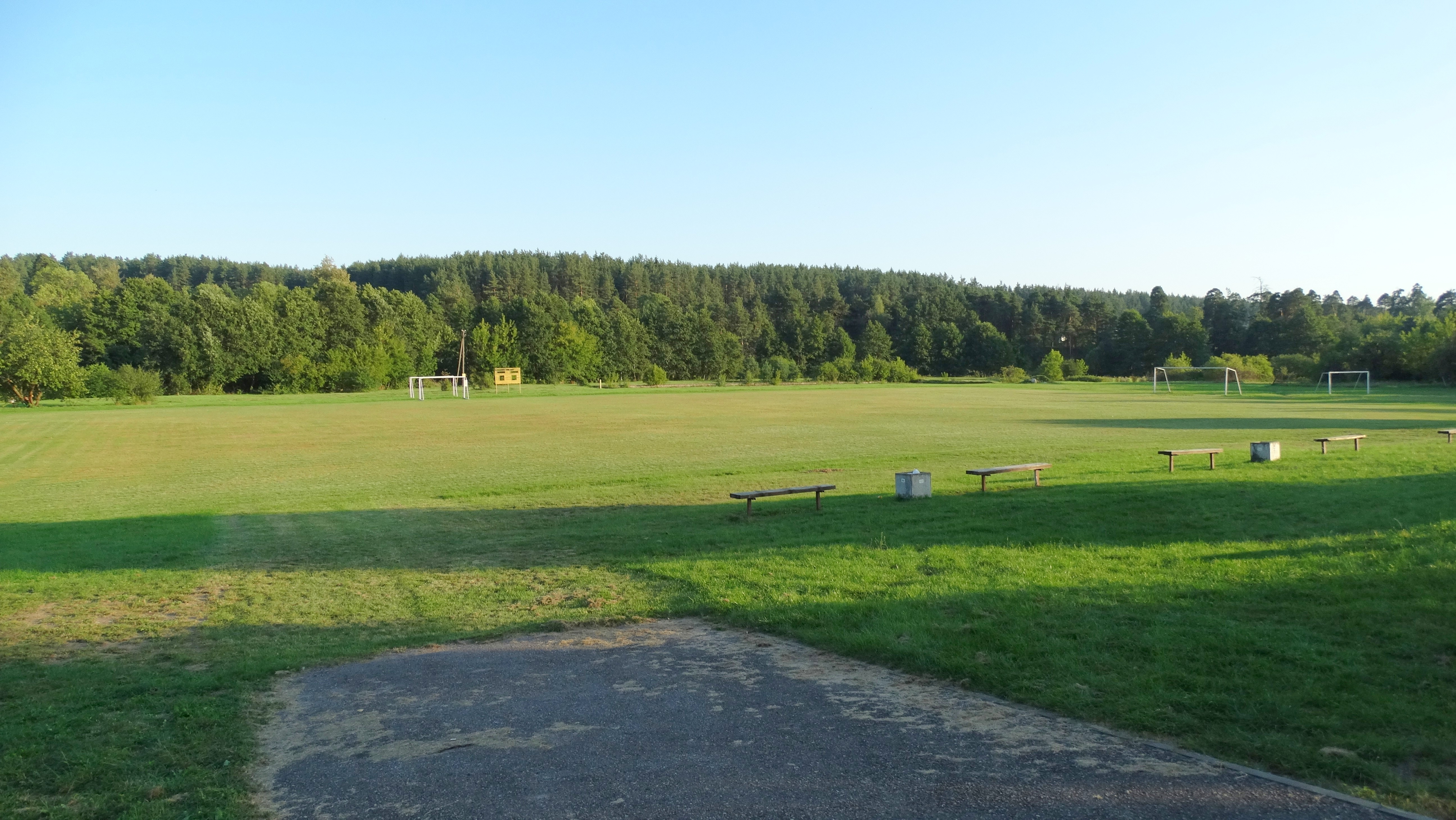 Football stadium, Pabradė, Švenčionys District, Lithuania